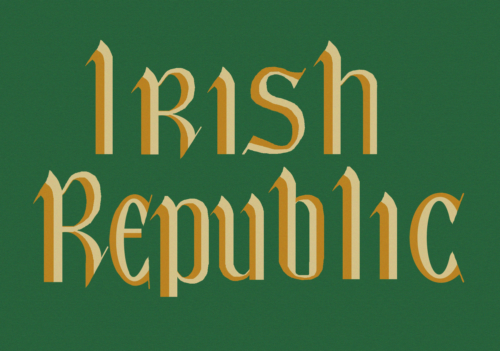 "Irish Republic" flag, flown over the General Post Office in Dublin during the Easter Rising in Ireland, 1916. It was made by Mary Shannon at the headquarters of the Irish Citizen Army in Liberty Hall. Captured by British troops after the surrender of the rebels, it was returned to Ireland by the British Government in 1966. It is now on display in the National Museum of Ireland in Dublin.[1] Some details of the flag that are not apparent in photographs are (1) the hooks on the top of the letters, (2) the apparent diagonal on the right side of the 'h' is due to a crease in the flag, and (3) the background colour is emerald green.